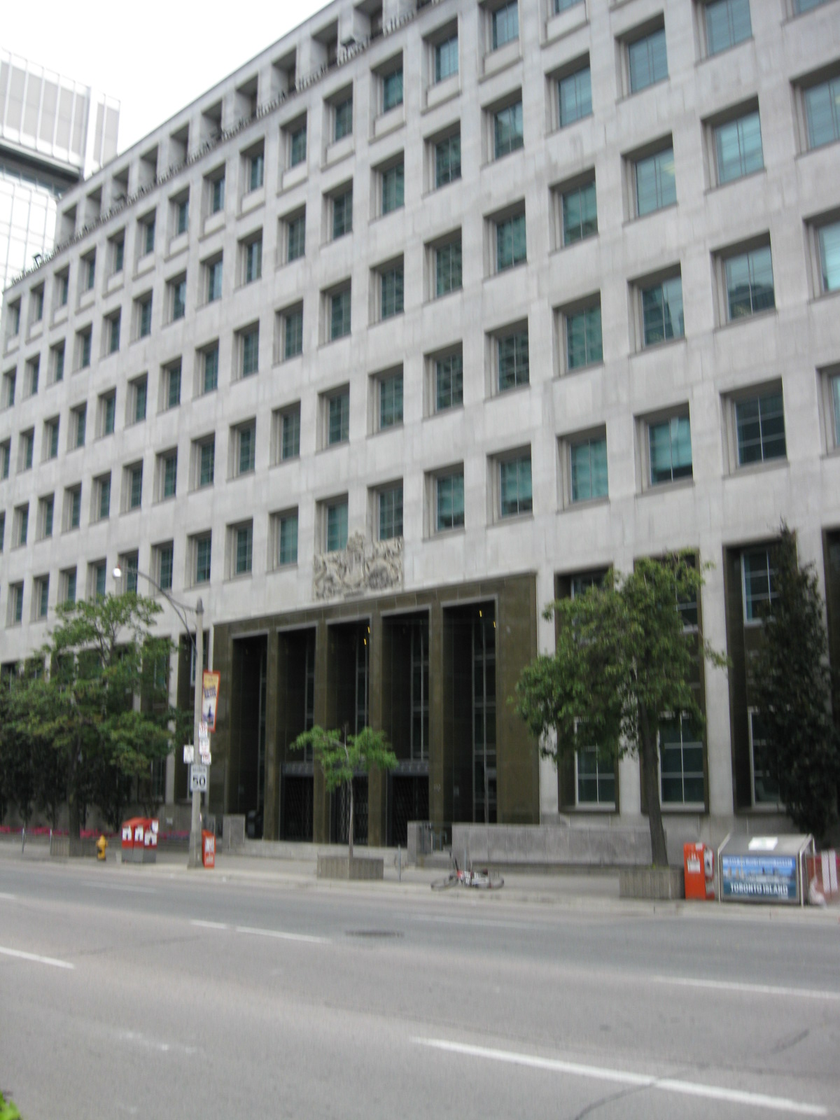 Bank of Canada building on University Avenue, Toronto, Ontario